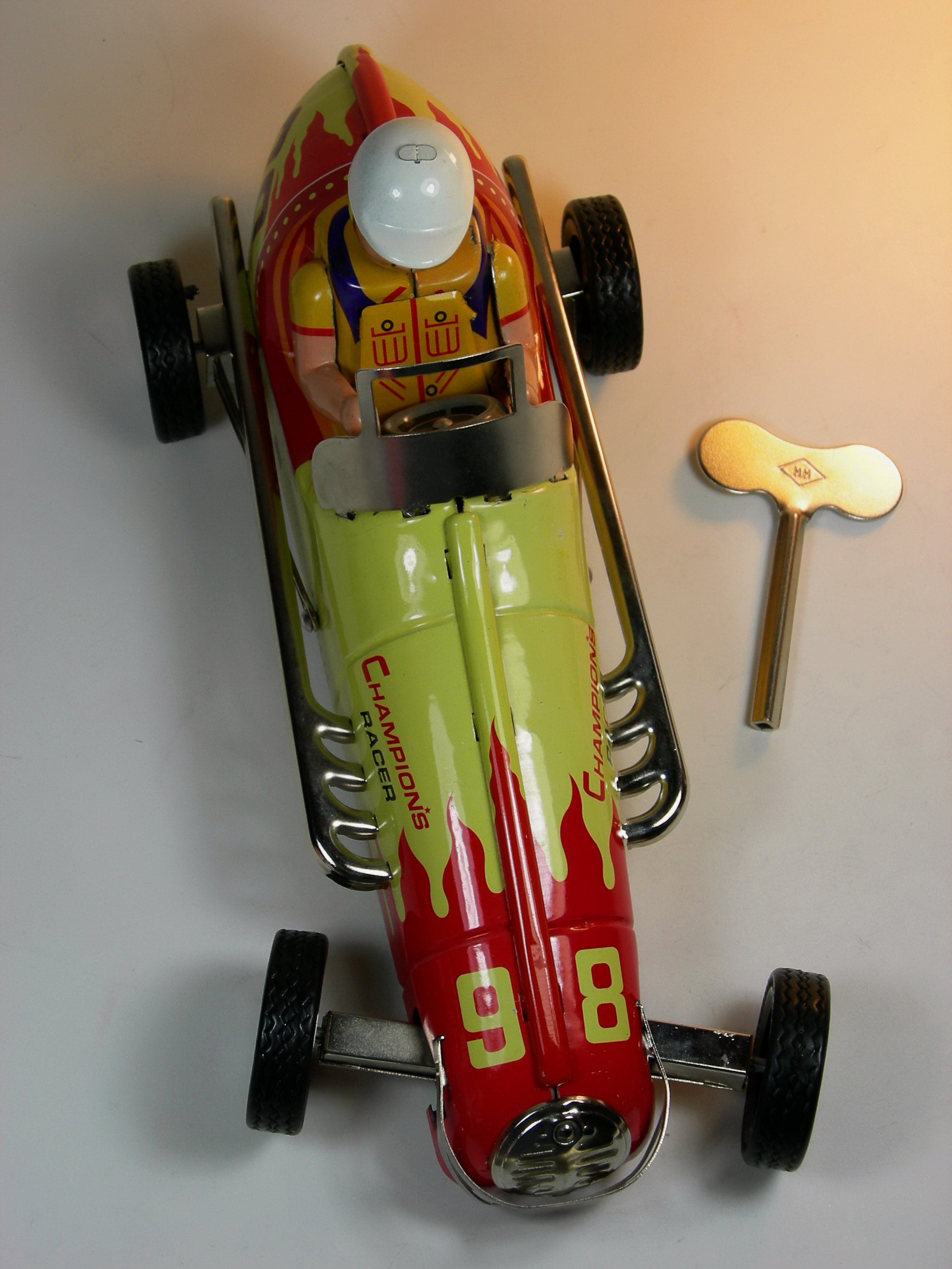 More pictures of My Toy Museum's at Flickr. Most of those toys do still have copyrights so i can't publish them here!